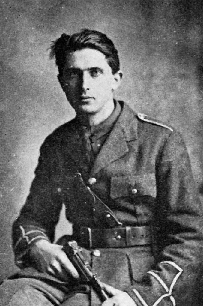 Michael 'Mick' Mansfield (Irish: Micheál De Moinbhíol) was a Staff Engineer in the Déise Brigade of the Irish Republican Army.